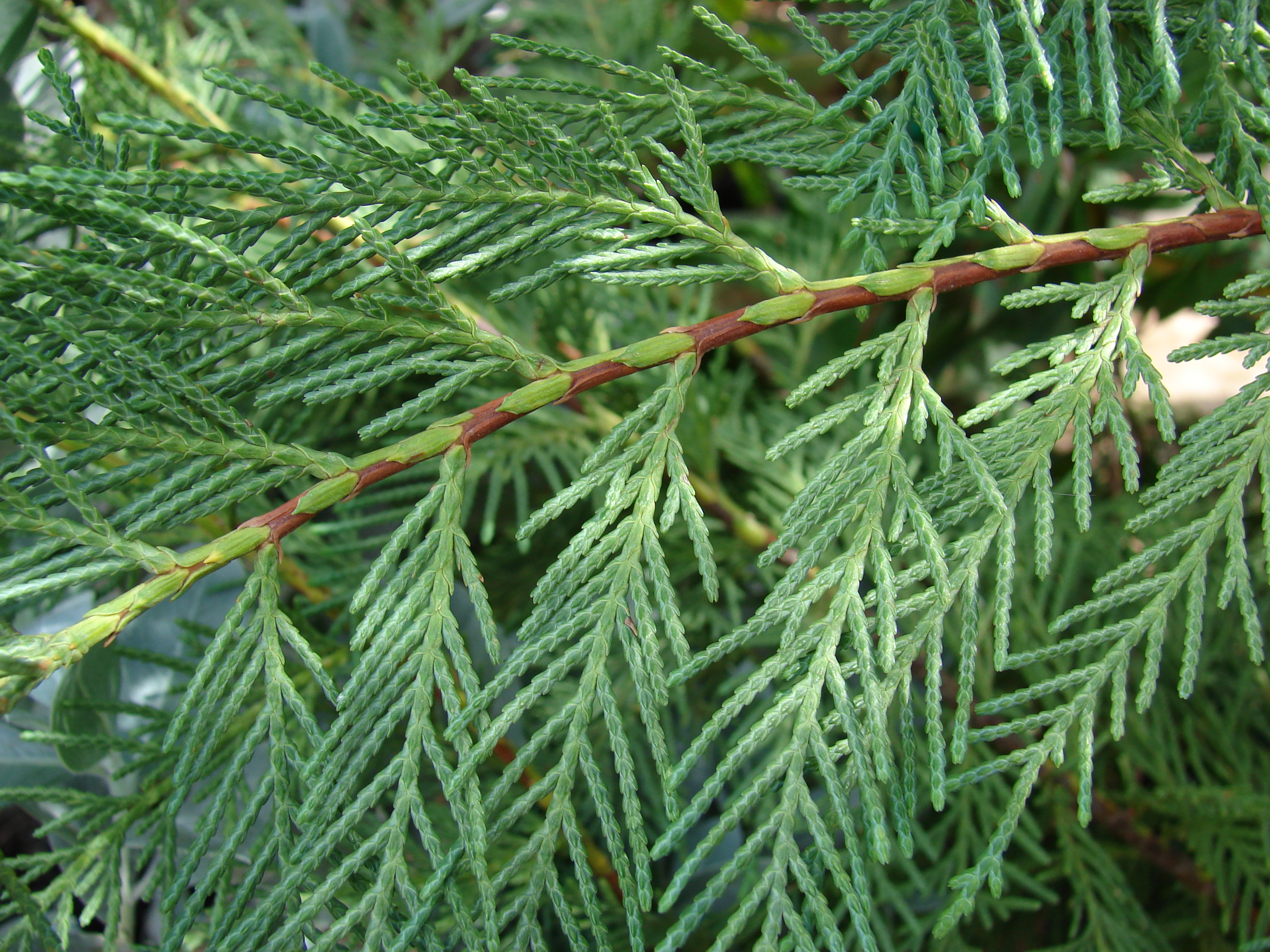 Leyland Cypress Cupressus × leylandii (foliage). Location: Maui, Home Depot Nursery Kahului